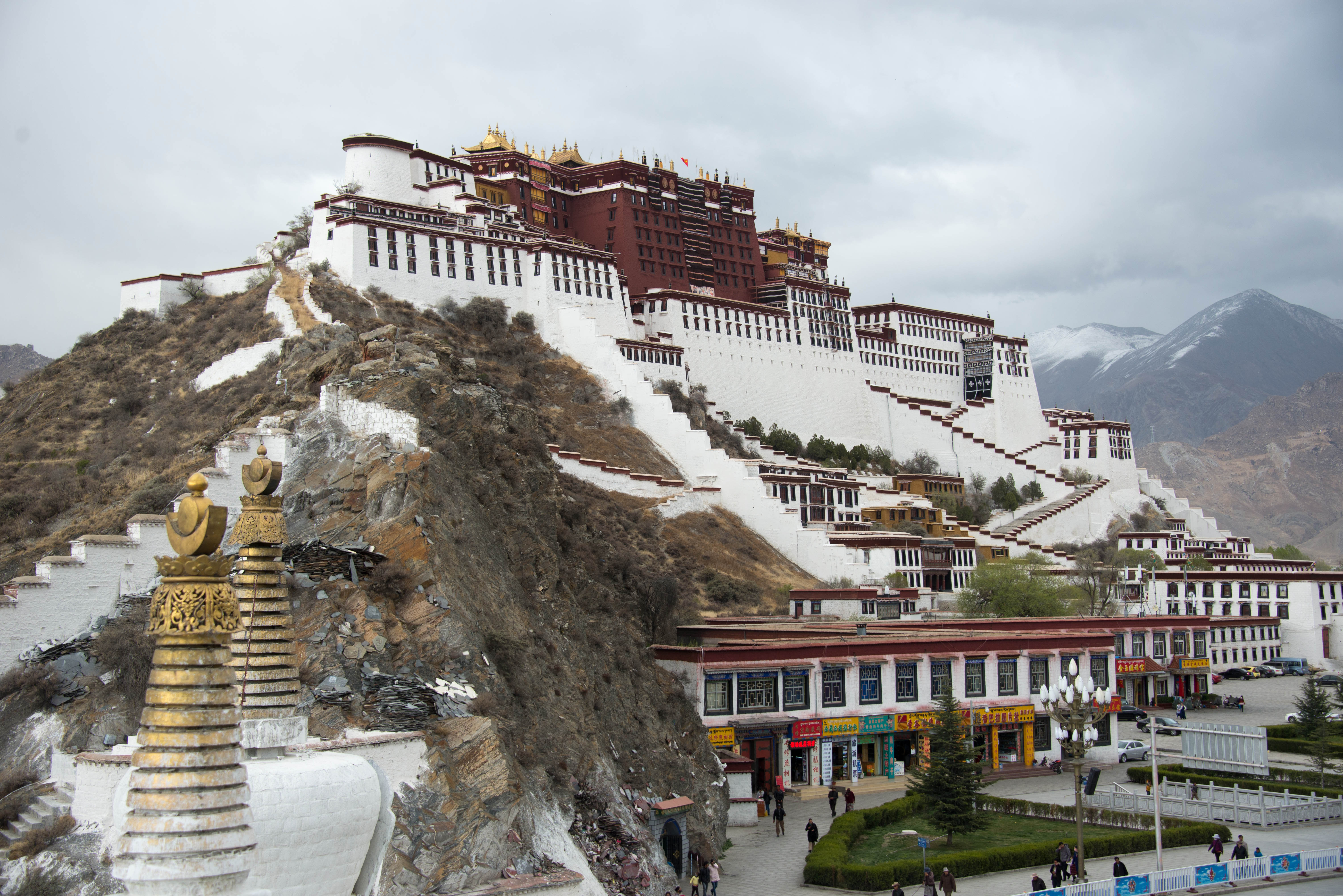 The Potala Palace in Lhasa, Tibet Autonomous Region, China. (High Resolution)